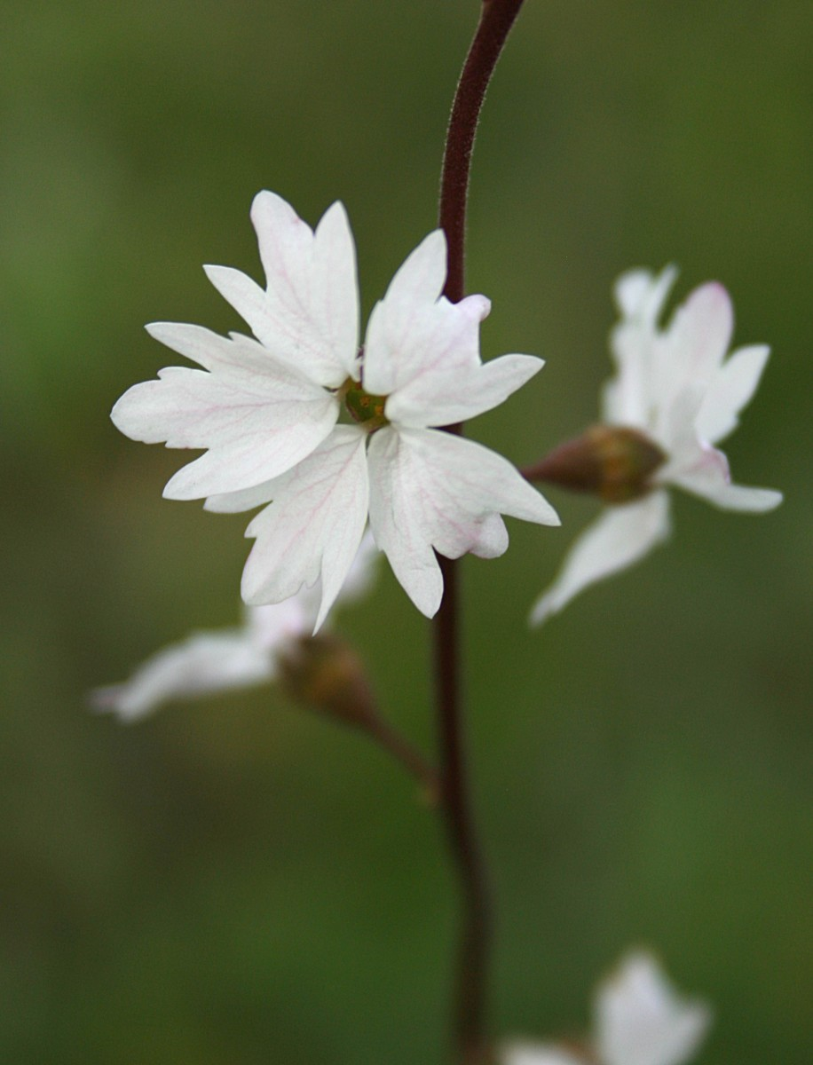 Woodland star (Lithophragma sp.